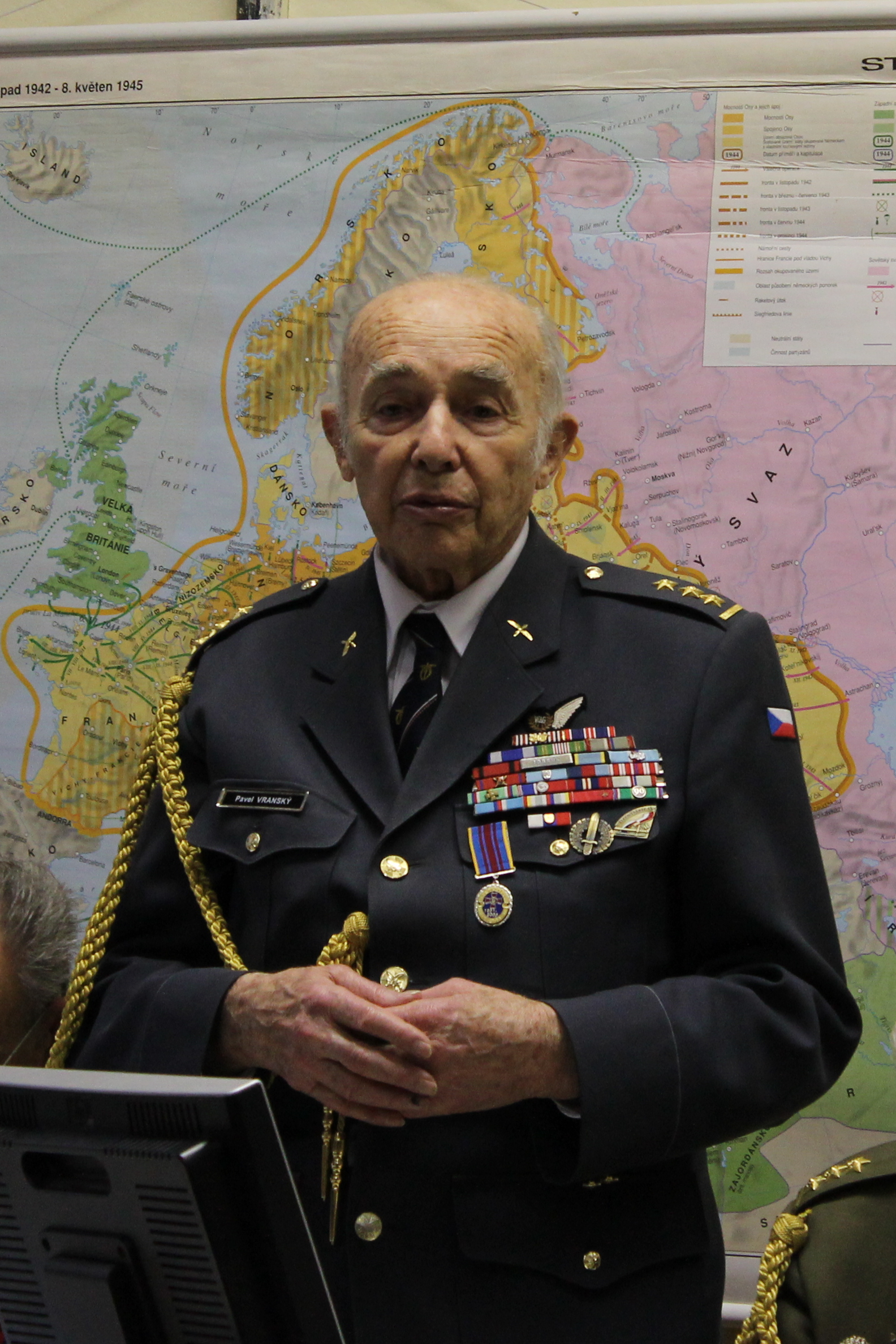 Colonel Pavel Vranský, WWII veteran giving speech to students of „Gymnázium Budějovická“ grammar school